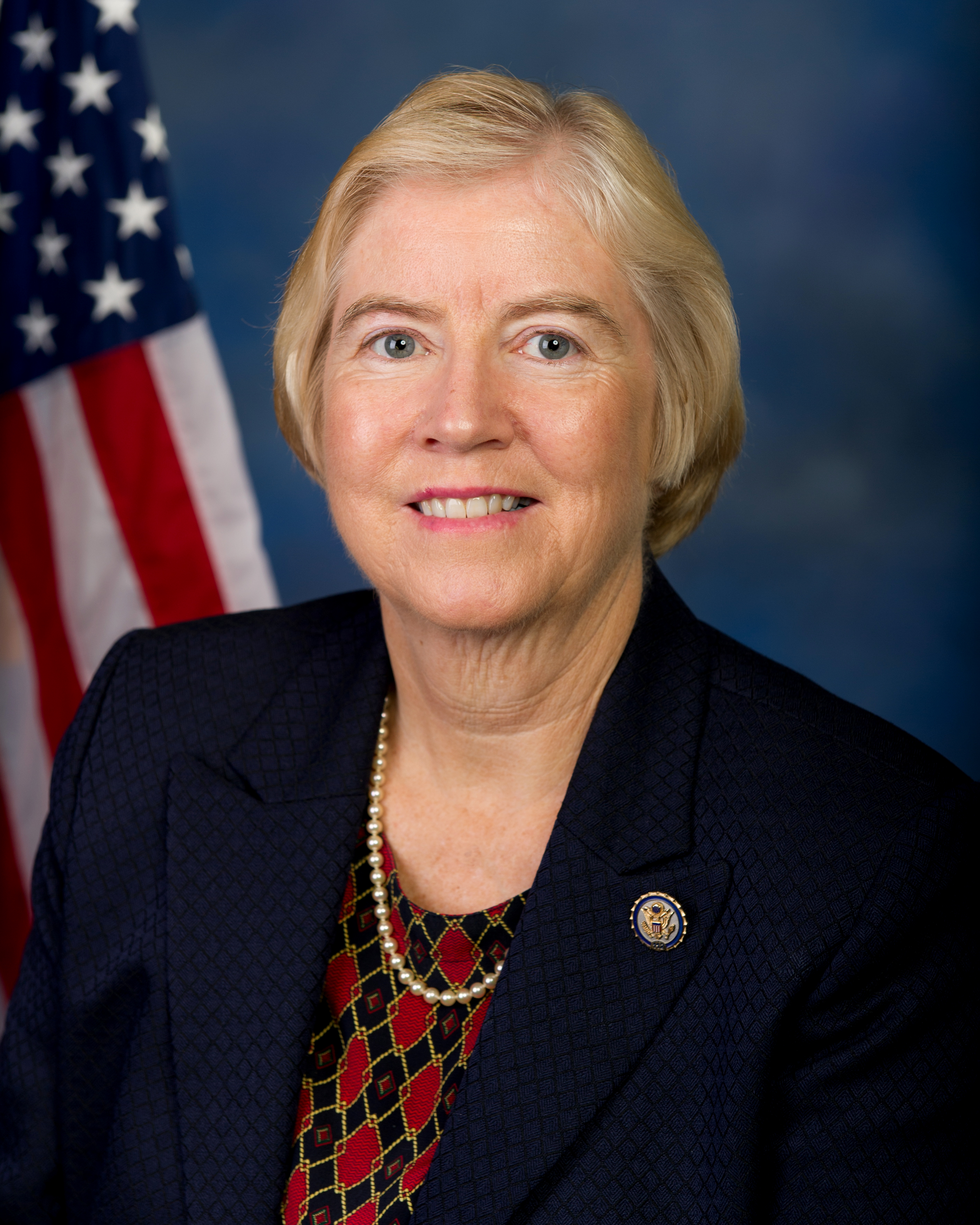 Official portrait of Congresswoman Candice Miller (R-MI).